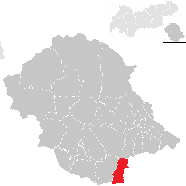 District Lienz